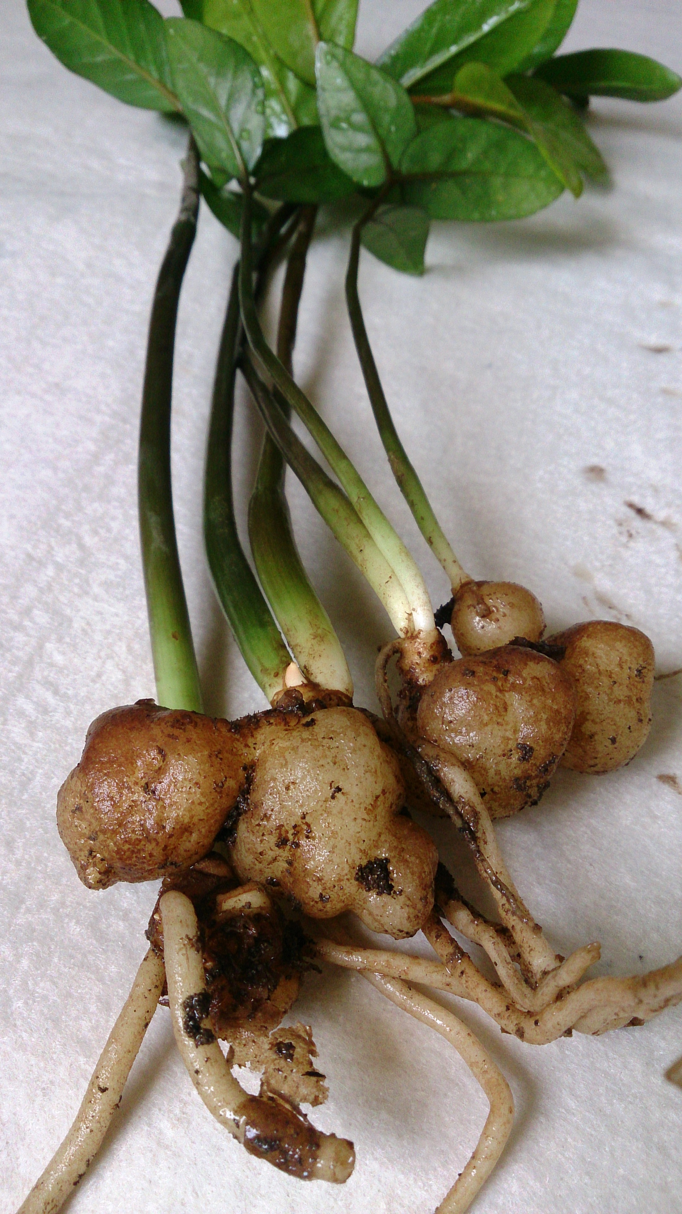 Zamioculcas zamiifolia. Common name: ZZ Plant. Showing roots.